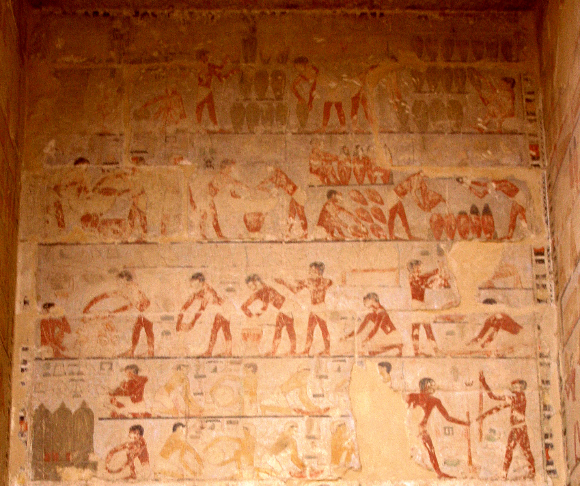 Mastaba of Ti, Saqqara, 5th Dynasty